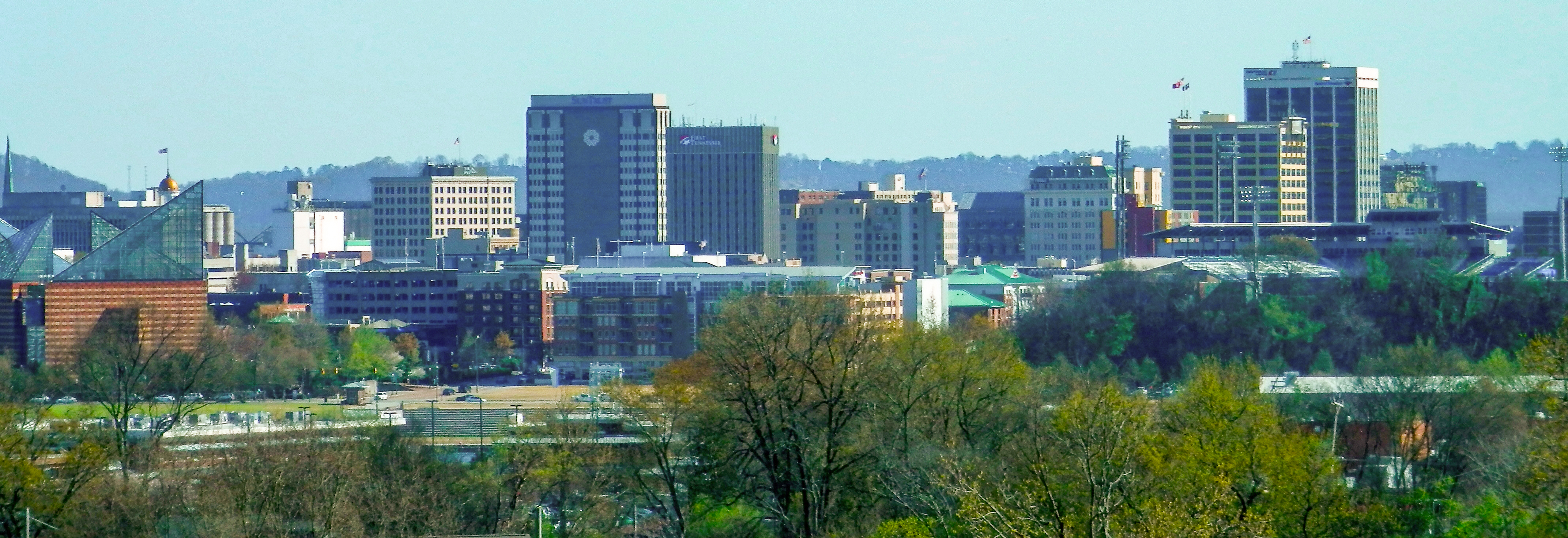 Taken from Nikki's Drive Inn Restaurant